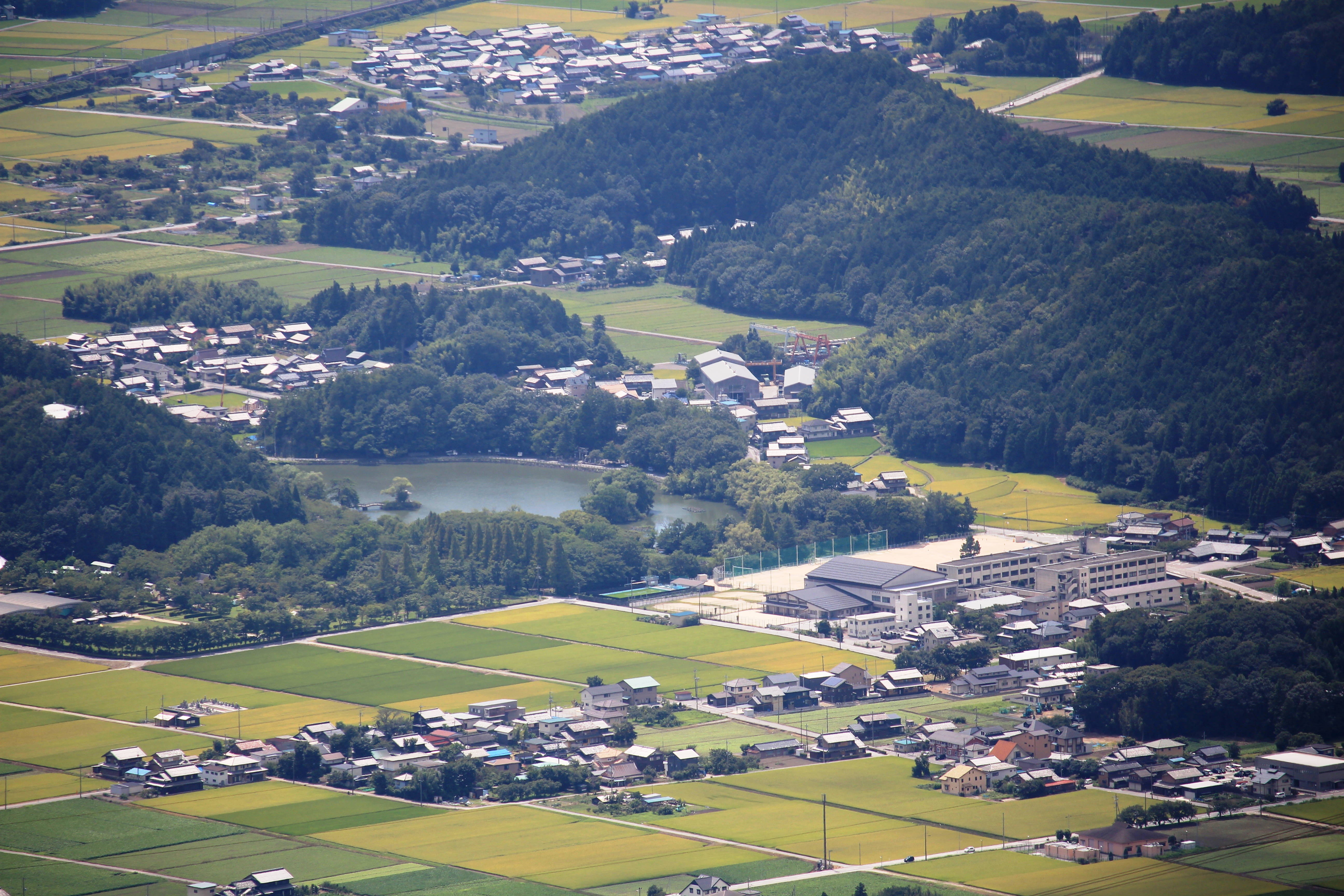 Mishima Pond and Daito Junior high school seen from Mount Ibuki in Shiga prefecture, Japan.